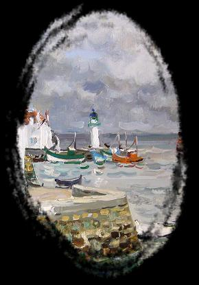 Part of Sauson belle ile Les maisons (Jean Rigaud) painter of French navy